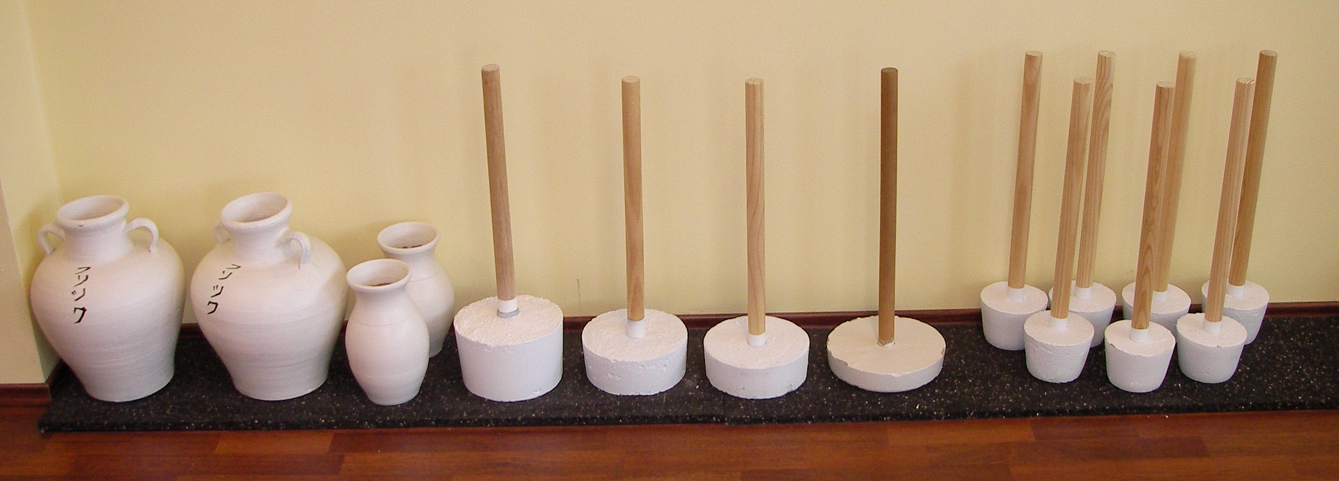 some classical gear for practising Karate (Dôgu)